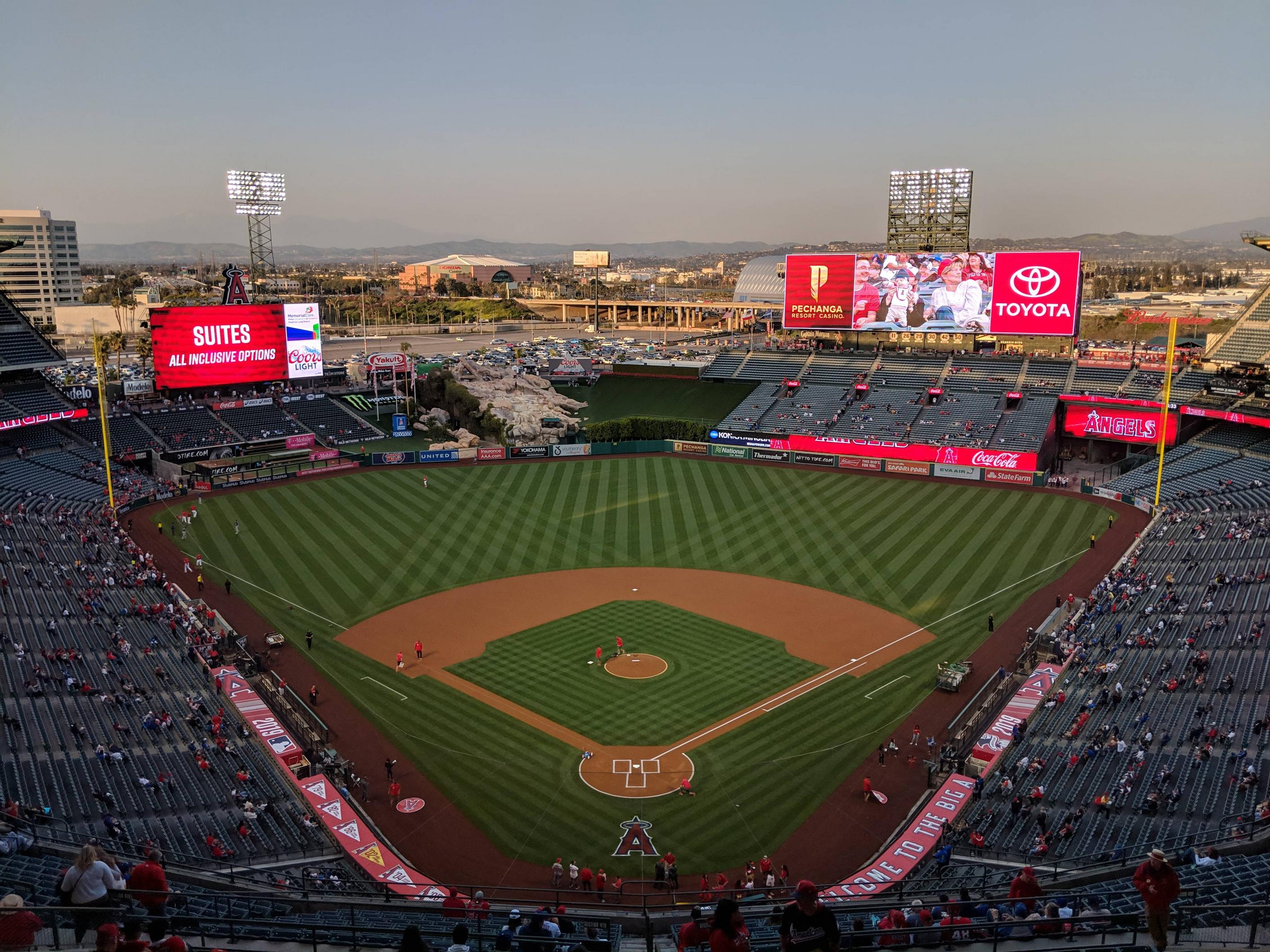 Angel Stadium before a Spring Training Exhibition Game, March 25, 2019